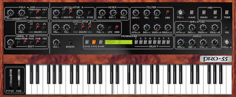 Output from one of the prophet emulations, manipulated from XPM to GIF with GIMP.